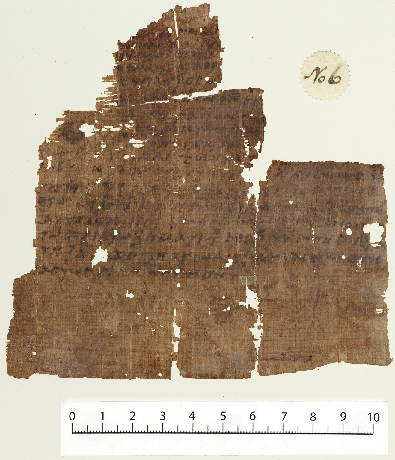 Oldest extant copy of Nicene Creed